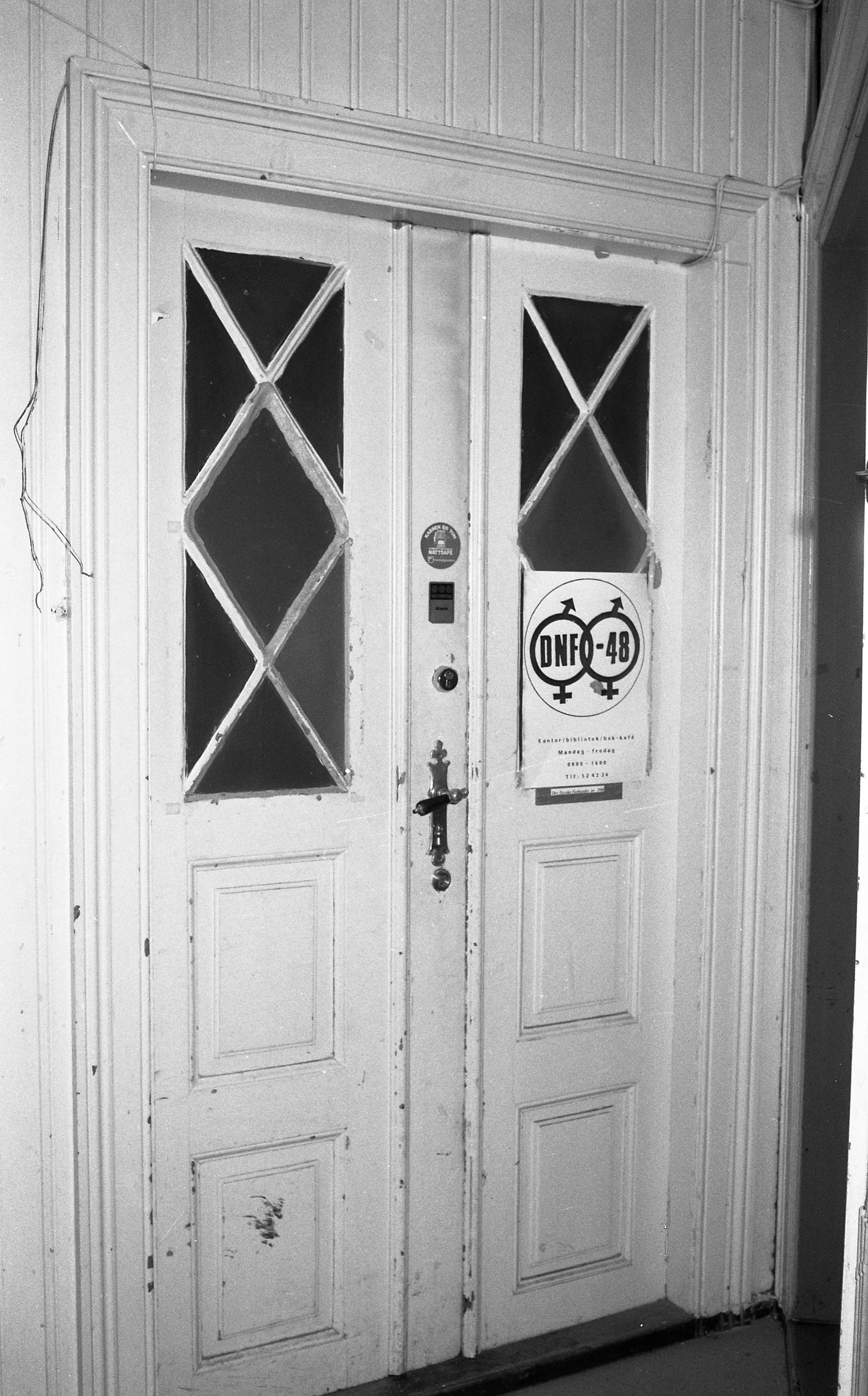 Format: 35 mm sort/hvitt negativ Film: ILFORD FP4 SAFETY FILM Dato / Date: 18. mai 1988 Fotograf / Photographer: Byantikvaren (J. K.) Sted / Place: Søndre gate 7, Trondheim Wikipedia: Det norske forbundet av 1948 Eier / Owner Institution: Trondheim byarkiv, The Municipal Archives of Trondheim Arkivreferanse / Archive reference: Tor.H43.P2.F6634, film 81 Merknad: Fra Byantikvarens negativsamling.